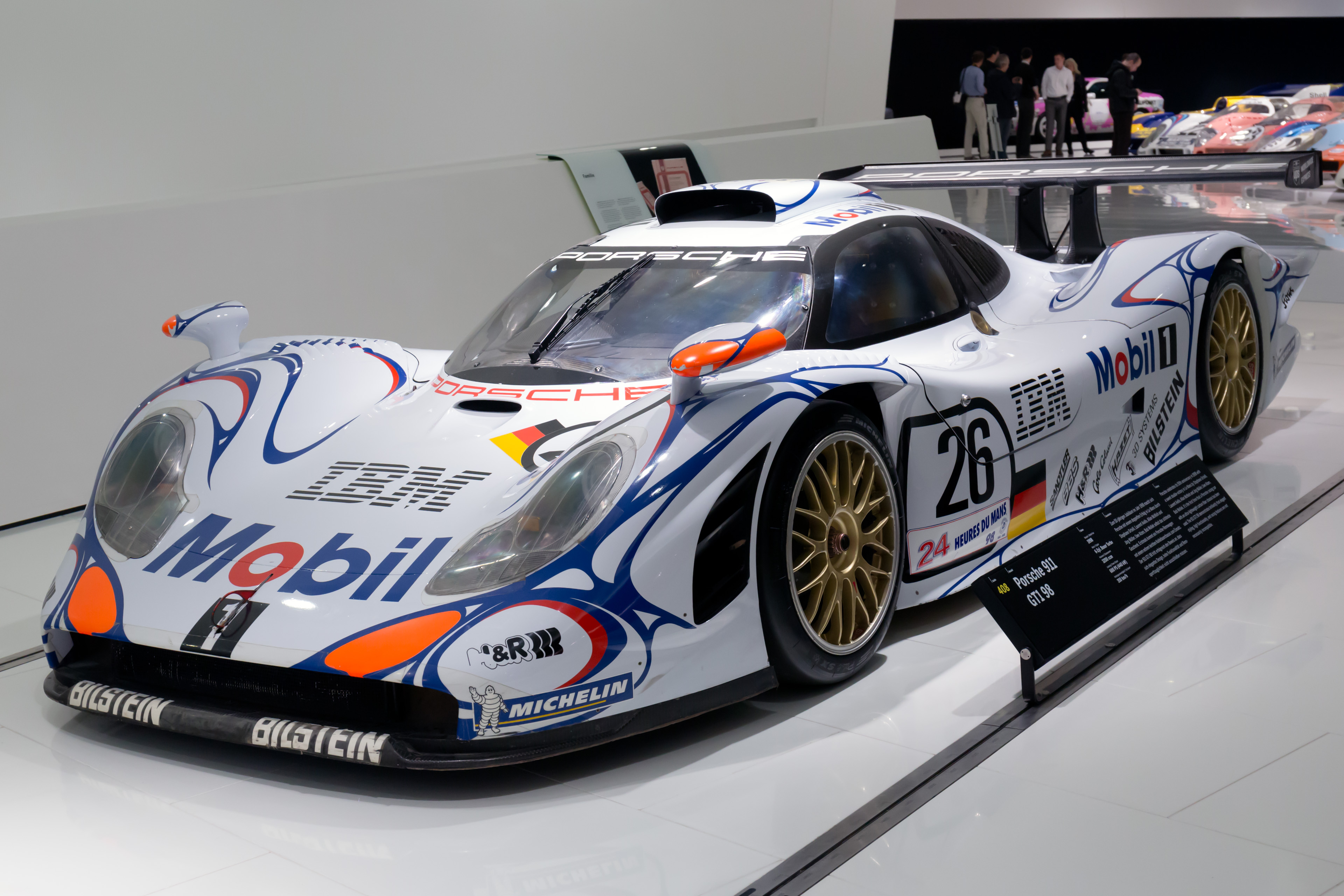 1998 Porsche 911 GT1 '98